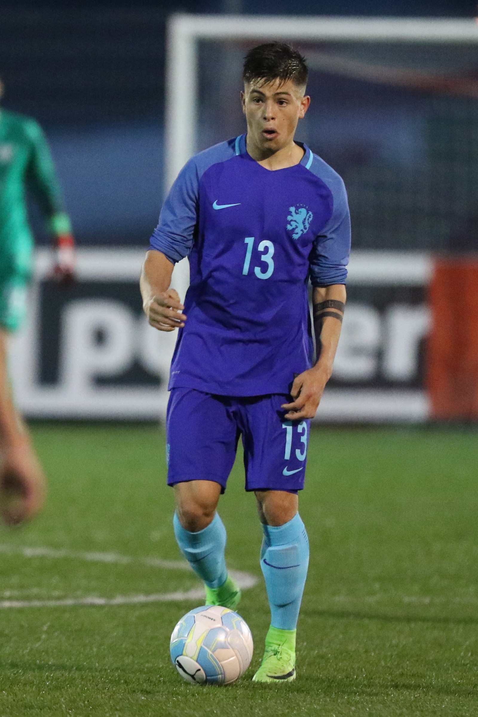 Friendly match Austria national under-18 football team (red shirts) vs. Netherlands national under-18 football team (blue shirts) 1–1 (1–0) on 2017-03-23 in Eggendorf – The photo shows Gabriel Culhaci (FC Utrecht U19).